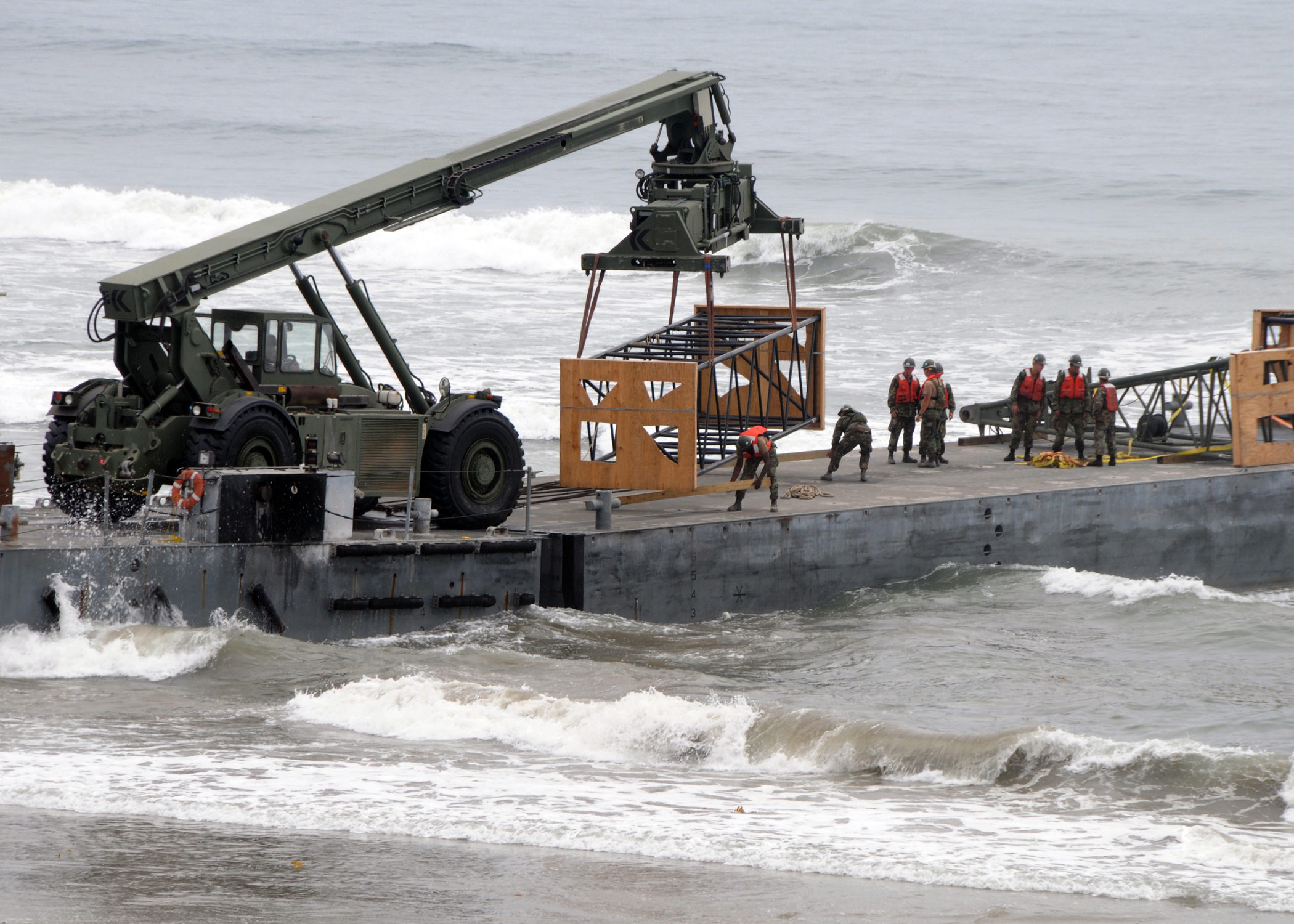 Cargo is unloaded from an improved Navy lighterage system causeway ferry during Joint Logistics Over-The-Shore (JLOTS) 2008. 080703-N-1424C-768 CAMP PENDLETON, Calif. (July 3, 2008) Cargo is unloaded from an improved Navy lighterage system causeway ferry during Joint Logistics Over-The-Shore (JLOTS) 2008. JLOTS 2008 will establish command and control of Army and Navy units, construct a life support area, conduct force protection operations, execute an in-stream offload of shipping from a sea echelon area, employ an offshore petroleum discharge system, retrograde and safely redeploy allocated forces. — Released (Text by U.S. Navy)